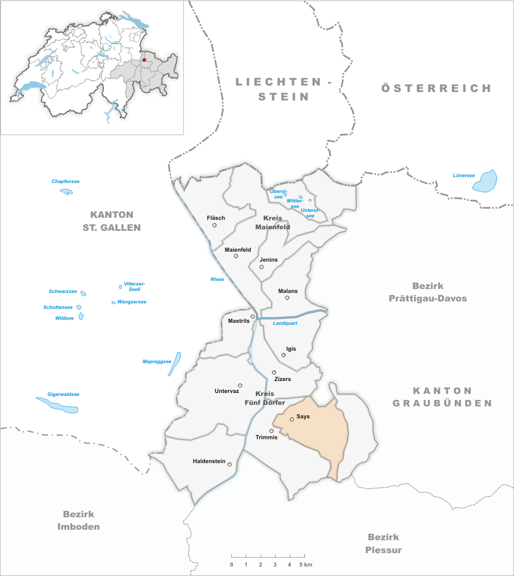 Municipality Says